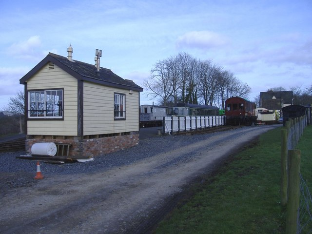 Titley Junction This former station is being developed as a private railway centre. It once stood at the junction of four minor rail lines, from New Radnor, Leominster, Presteign and Earsdisley.